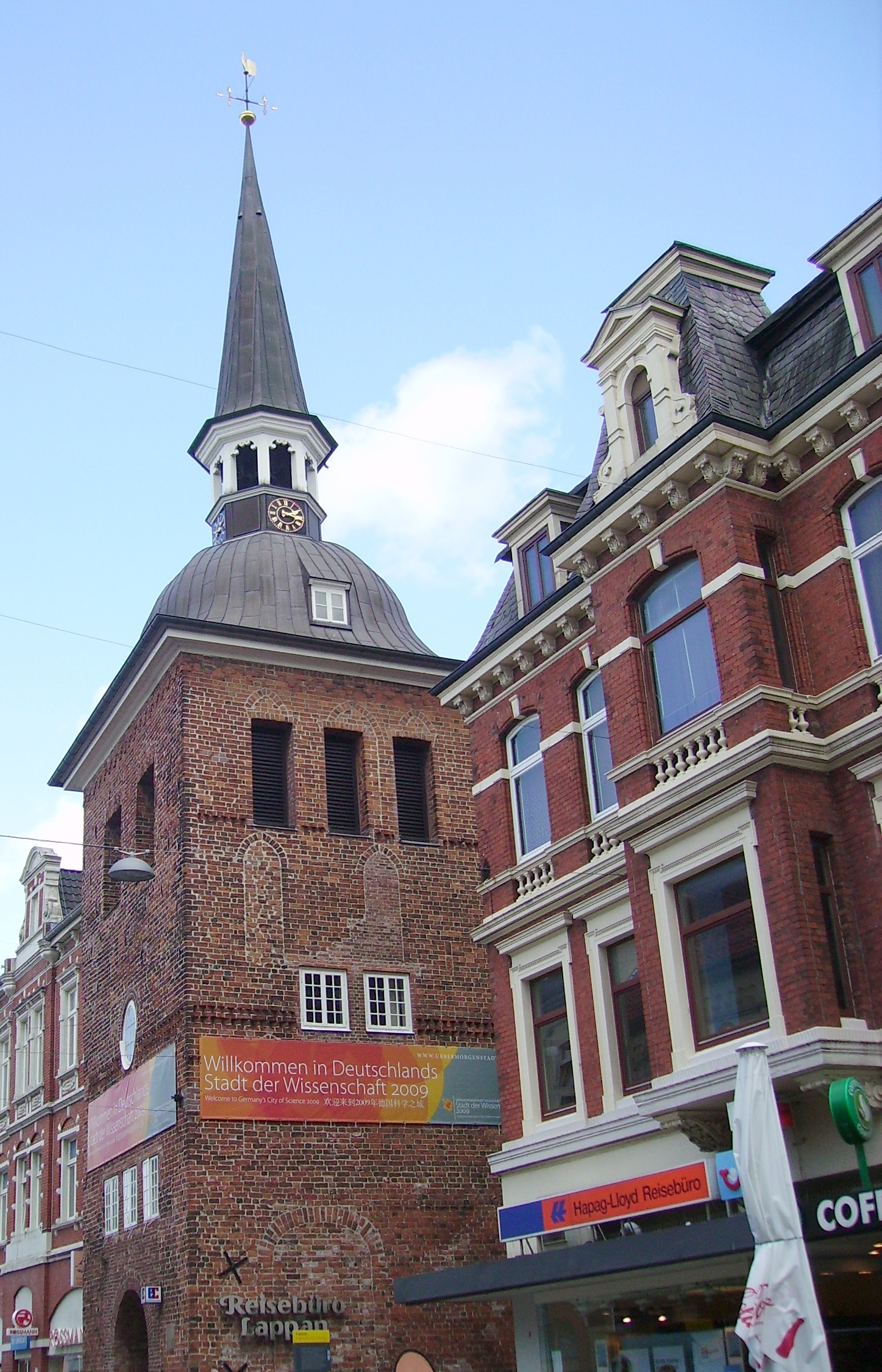 The bell tower "Lapan" in Oldenburg, Germany (view of the south)